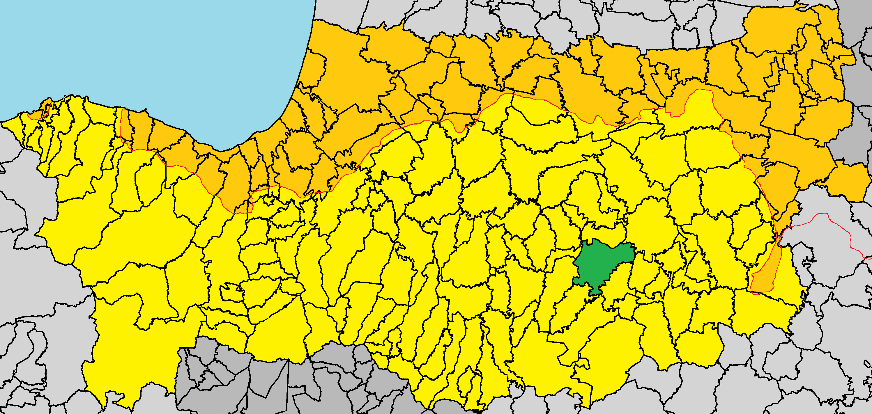 Pera Orinis in Nicosia District.